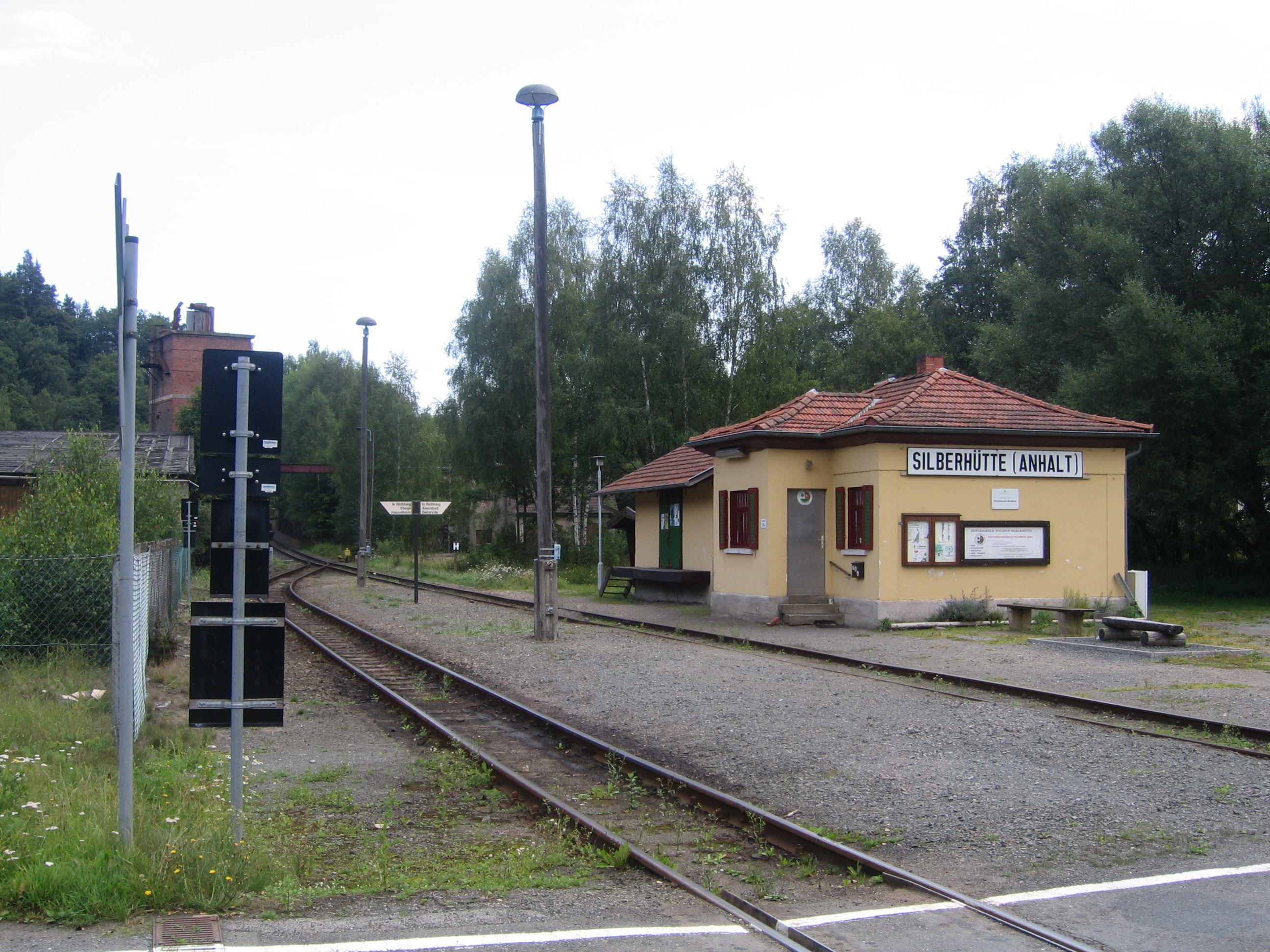 The railway station at Silberhütte (Harzgerode) (aka Silberhütte (Anhalt)) in the Harz Mountains of Germany.